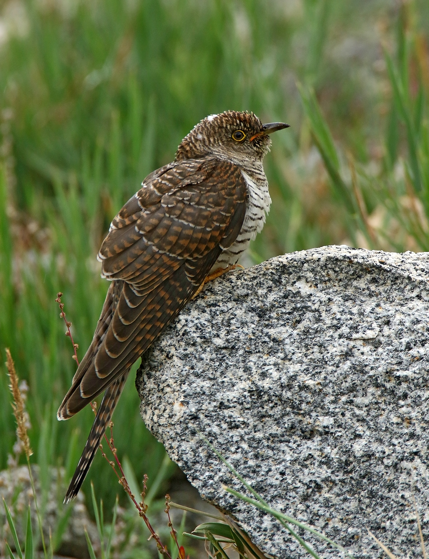 Common Cuckoo (Cuculus canorus) captured at Borit, Gojal, Gilgit-Baltistan, Pakistan with Canon EOS 7D Mark II